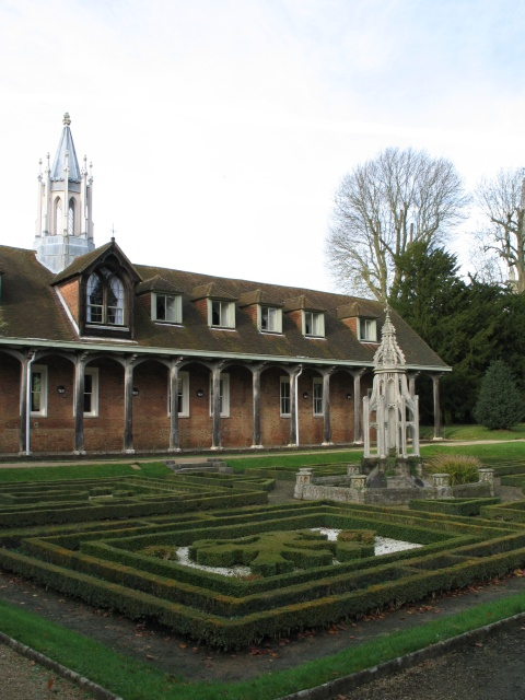 Ashridge House - Formal Garden Ashridge House is one of the largest Gothic Revival country houses in England and is Grade I. listed. The House stands on the site of Ashridge Priory, a medieval abbey founded by the Brothers of Penitence. Following the Dissolution of the Monasteries, the building eventually became the private residence of Princess Elizabeth - later Elizabeth I. - and it was here that she was arrested in 1552 under suspicion of treason. In 1604 the priory was acquired by Sir Thomas Egerton. A descendant of his, the 3rd Duke of Bridgewater - he of canal-building fame - demolished the old buildings but did not live to see his plans for the House completed. His successor, the 7th Earl of Bridgewater, commissioned James Wyatt to build the present neo-gothic building as his home: it was completed in 1813. In 1921 the House was acquired by a trust established by Andrew Bonar Law, a former Prime Minister. In 1959 it became a management training college, and it continues in that role today with its own degree-awarding powers and an international reputation.